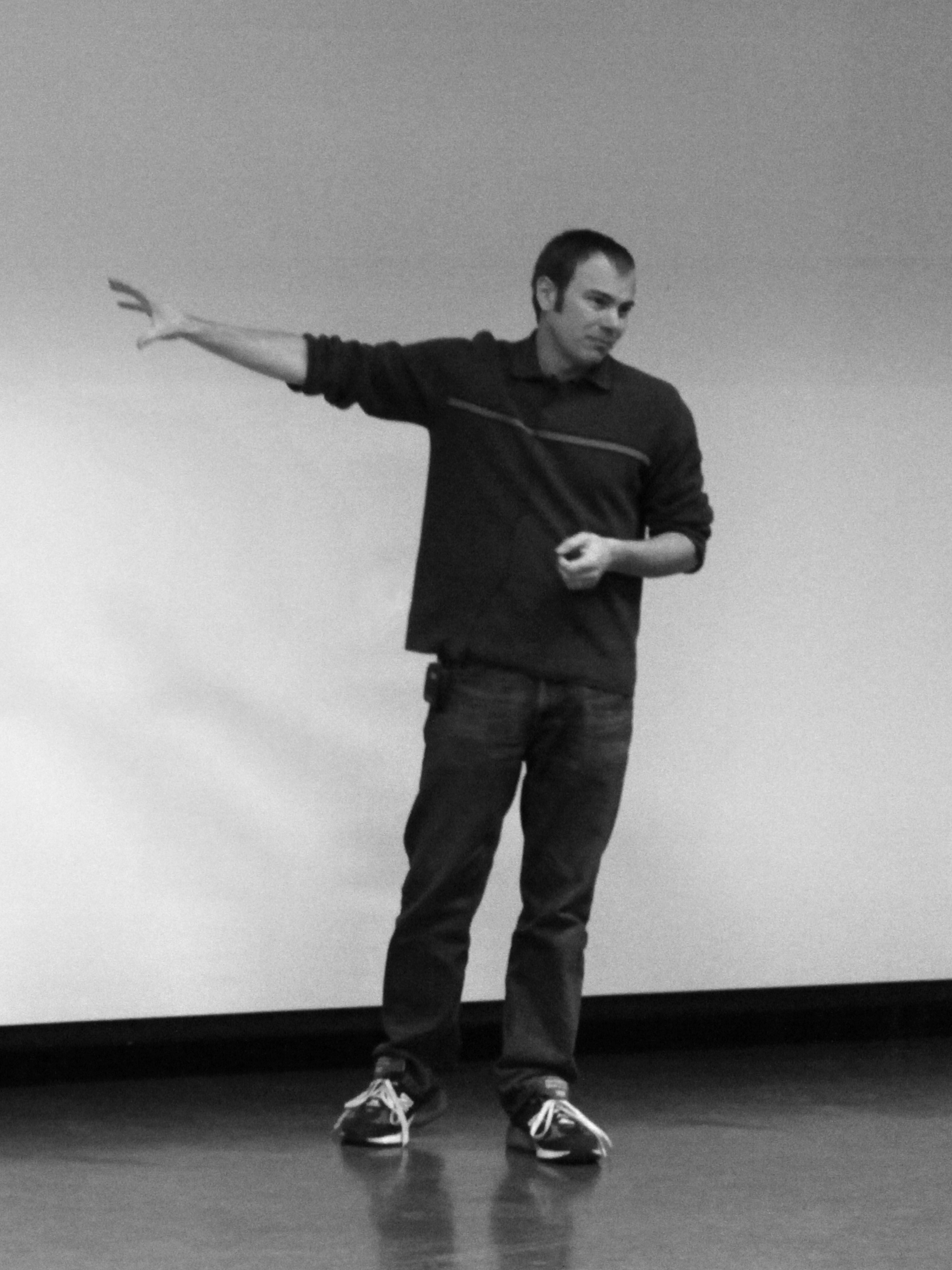 Chris Lattner giving at talk at FOSDEM 2011 about LLVM.